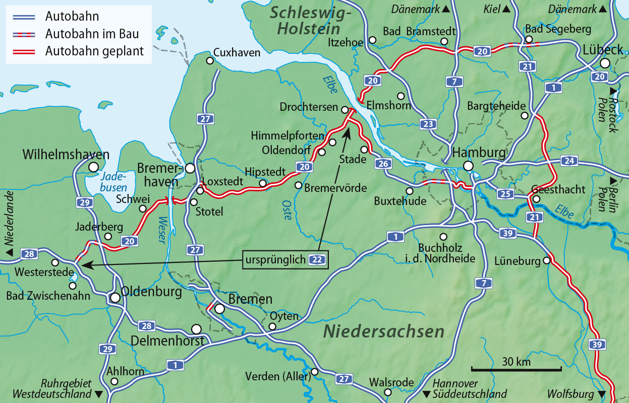 Map of the western part of Bundesautobahn 20, originally planned as Bundesautobahn 22 (Westerstede–Drochtersen)